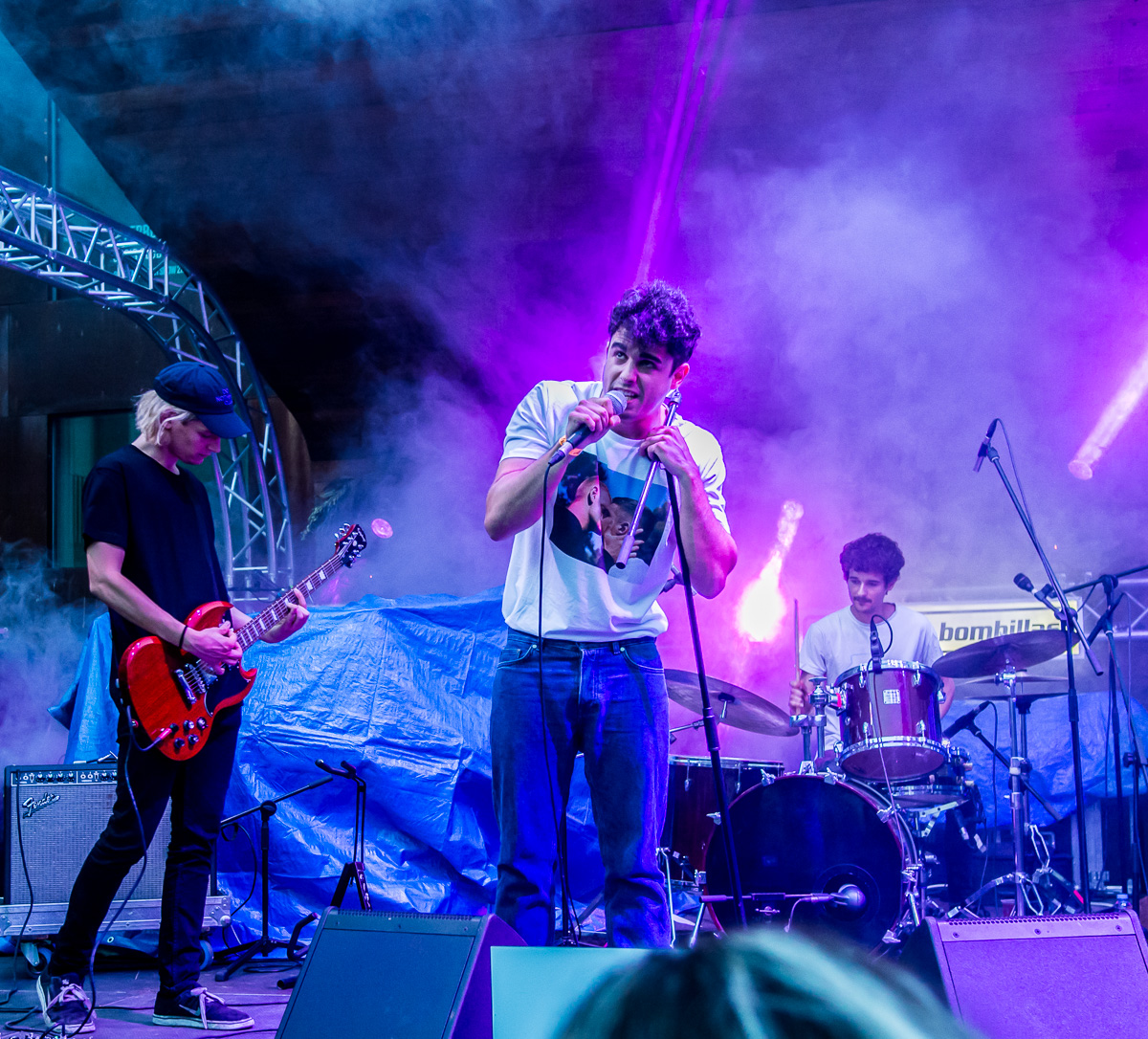 Carolina Durante Madrid IndiePop Band IndiRock. Acting Zaragoza, las Armas, October 12, 2018